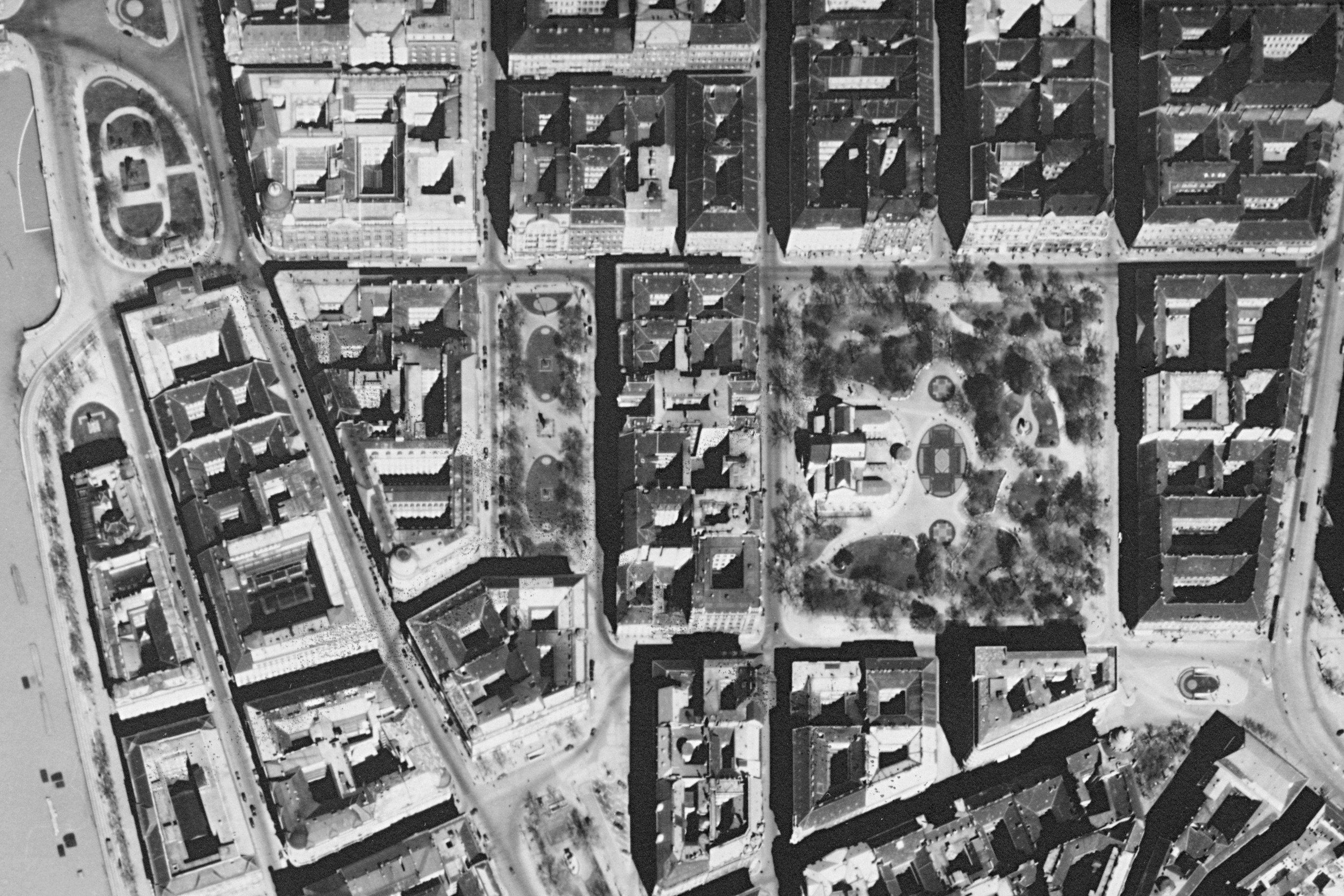 April 1944, Budapest military, aerial photo; after the first major Anglo-Saxon bombings, the Hungarian Royal Air Force took a low-profile shot of areas of Budapest that received bomb hits. This photo detail shows the József Nádor and the Elizabeth Square.